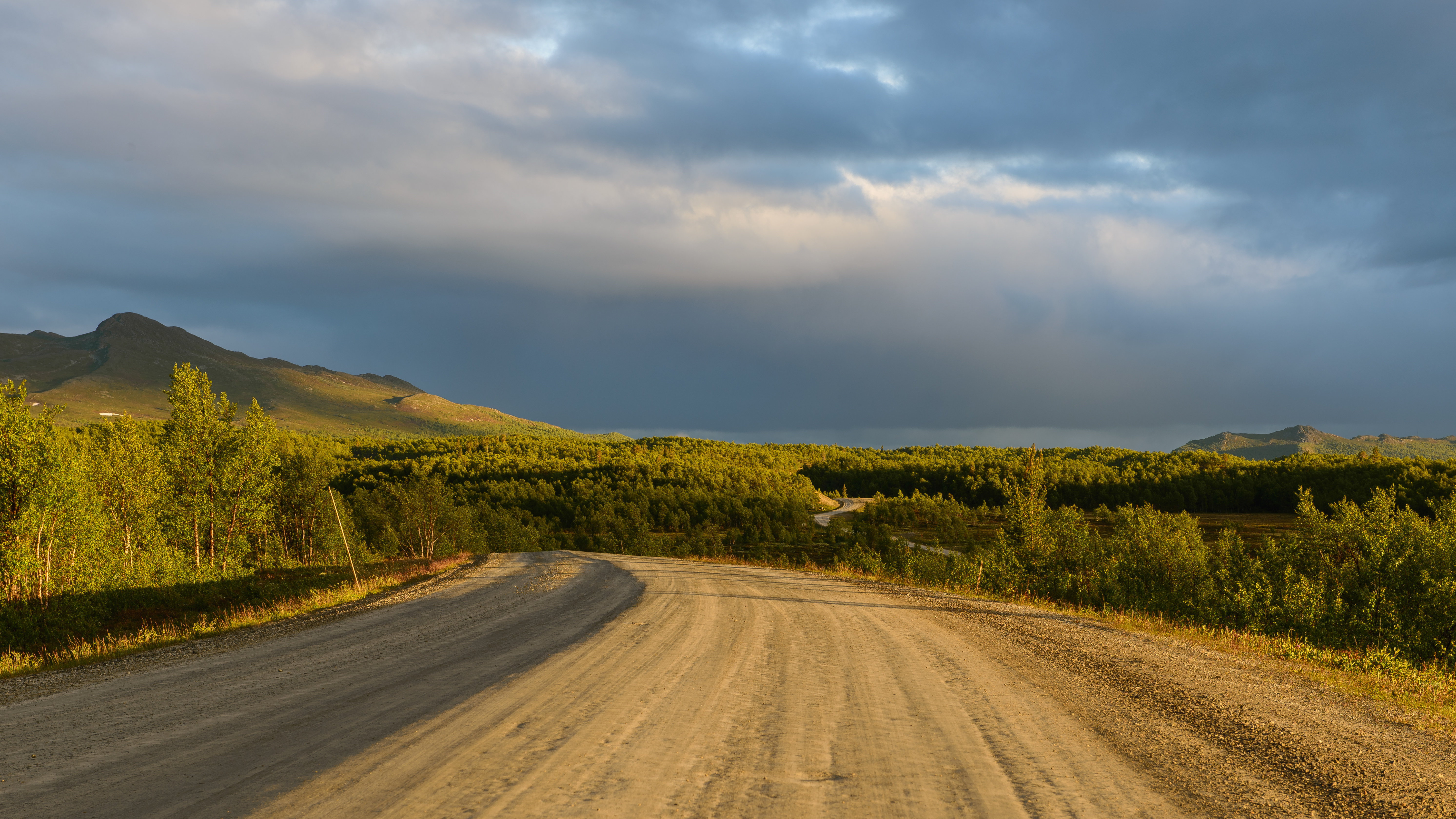 Swedish public road Z 531 (known as Flatruet Road, or Flatruetvägen) between Mittådalen and Funäsdalen. Härjedalen Municipality, Jämtland County. In the background to the left, Anåfjället (Anå mountain)